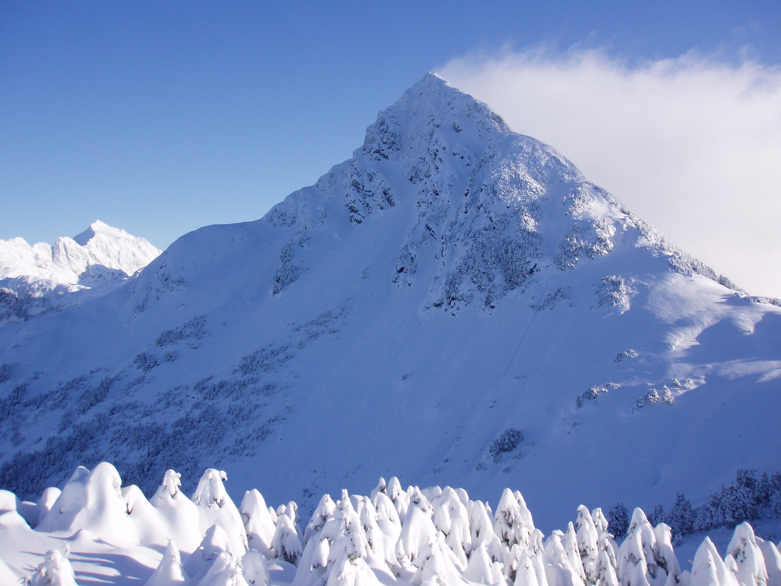 Mount Arrowhead, Alaska, USA; winter